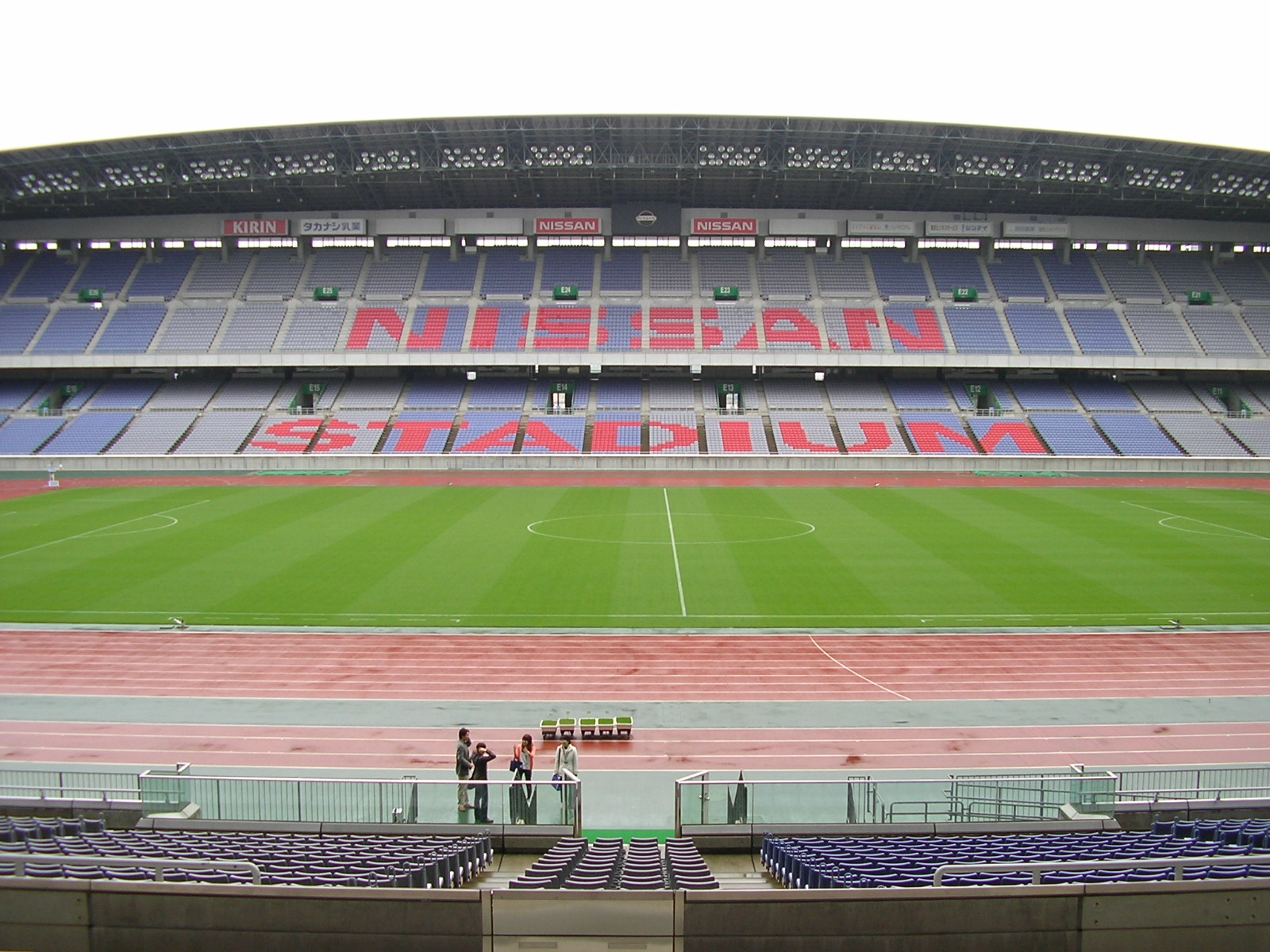 International Stadium Yokohama,at VIP Room